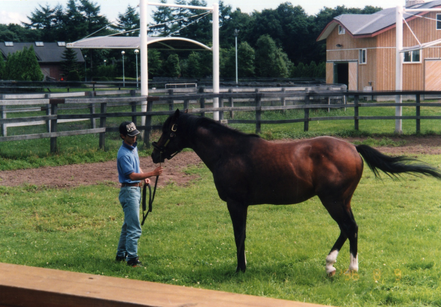 Tokai Teio, a Japanese race horse after his retirement